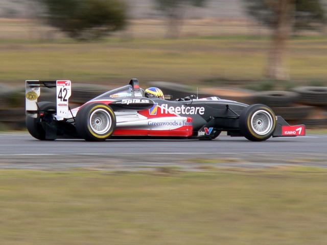 Australian Formula 3 race car number 42 driven by Leanne Tander at Round 5 of the 2006 Australian Drivers' Championship at Malalla Motorsports Park